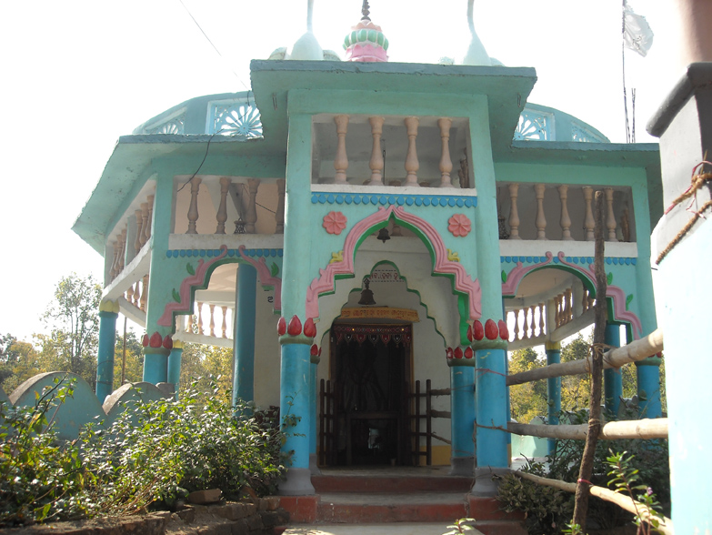 shantikutir is a temple of koilighugar waterfall in jharsuguda odisha .